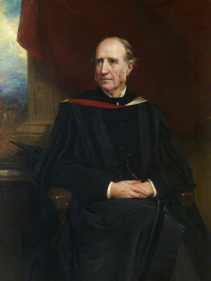 Portrait of John Campbell Shairp (1819-1885); Scottish critic and scholar; master at Rugby School, humanities professor at University of St Andrews, principal of United College, St Andrews, Oxford Professor of Poetry 1877-1885 painted by Robert Inerarity Herdman (1886), Oil on canvas, 139.5 x 104 cm, in the collection of University of St Andrews